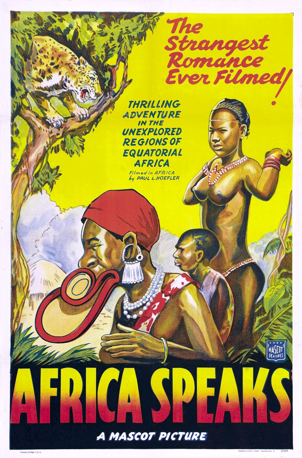 Poster from the 1930 film Africa Speaks!.